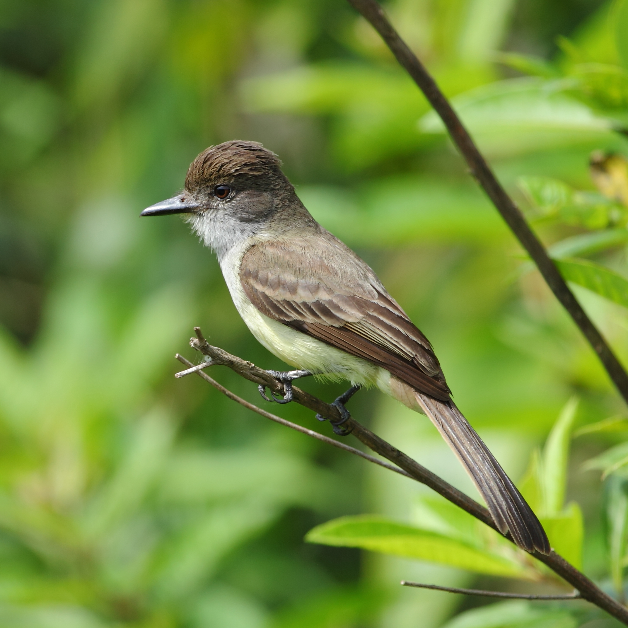 Short-crested Flycatcher at Bertioga - SP - Brazil